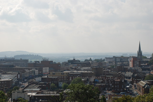 Dudley Town Centre View from Dudley Castle.